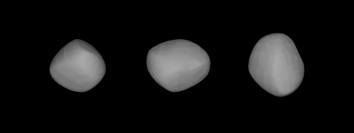 A three-dimensional model of 679 Pax that was computed using light curve inversion techniques.